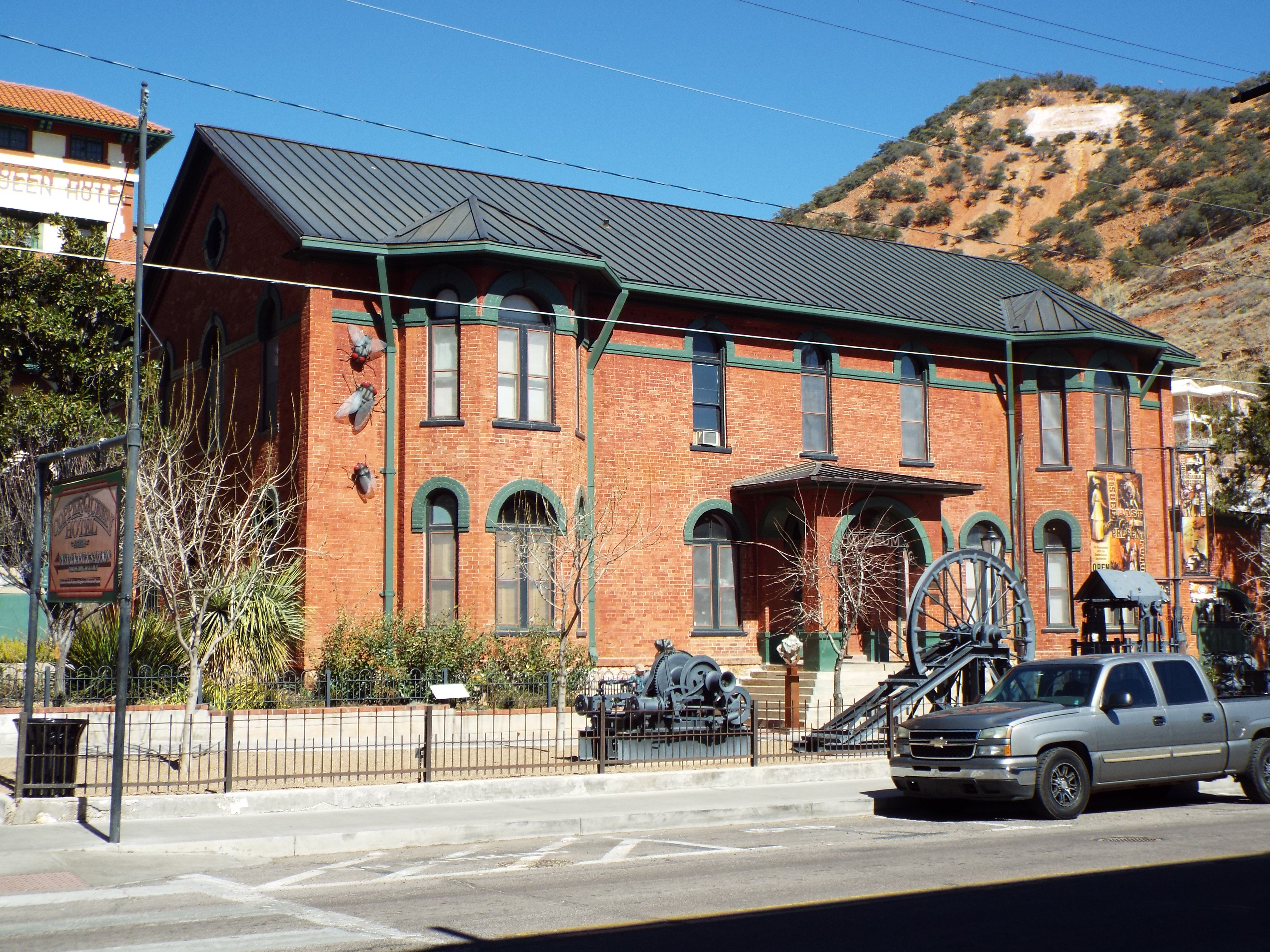 The Phelps Dodge Headquarters Building was built in 1896 and is located in 5 Copper Queen Plaza in Bisbee, Az. The building was the headquarters of the Phelps Dodge Mining Co. from 1896 to 1961. It now houses the Bisbee Mining & Historical Museum. It was the first museum in the southwest to be distinguished as a Smithsonian Affiliate Museum. The building was listed in the National Register of Historic Places on June 3, 1971, reference #71000109.